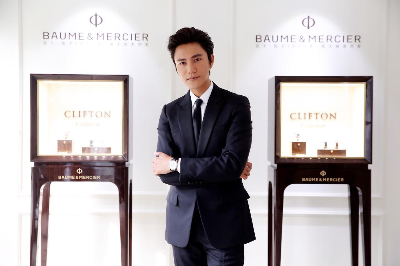 On 12 October 2016, Swiss Luxury watch brand Baume & Mercier joined with global ambassador Chen Kun to unveil the new Clifton Perpetual Calendar watch in Beijing.